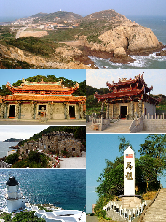 Montage of various Matsu Islands/ Lienchiang County images.